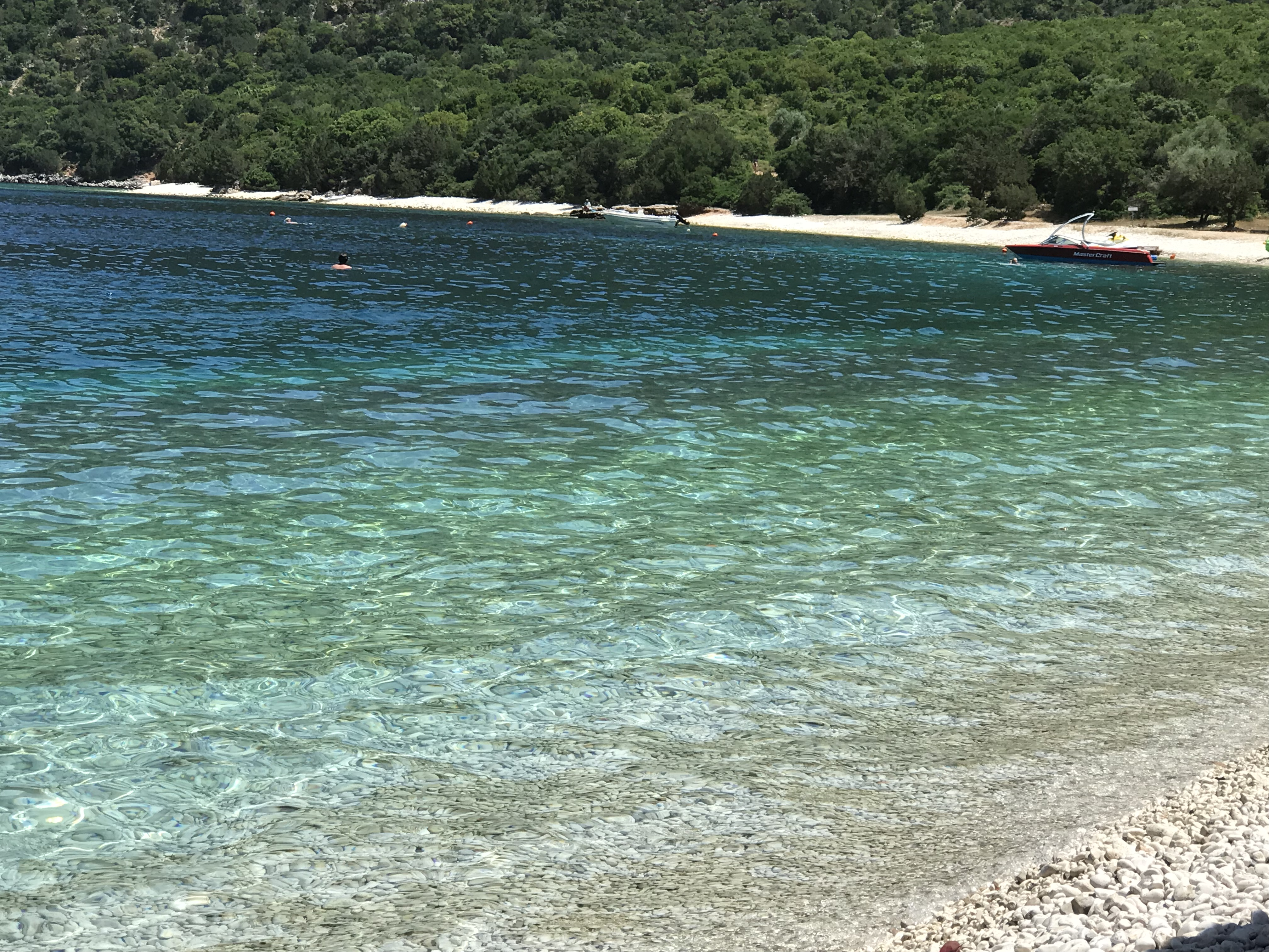 Acetabularia acetabulum - showing the location at 1-2 metres depth attached to the stones of Antisamos Beach, Kefalonia, Greece.